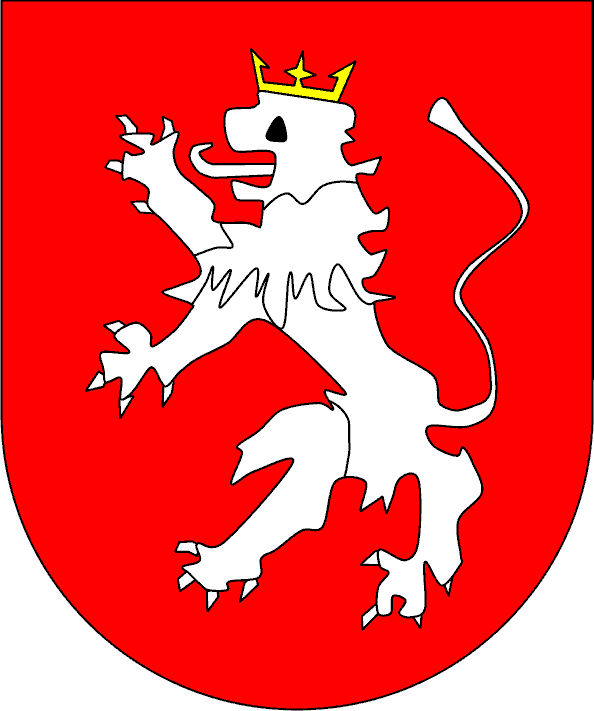 coats of arms of the lordship of Scharfeneck